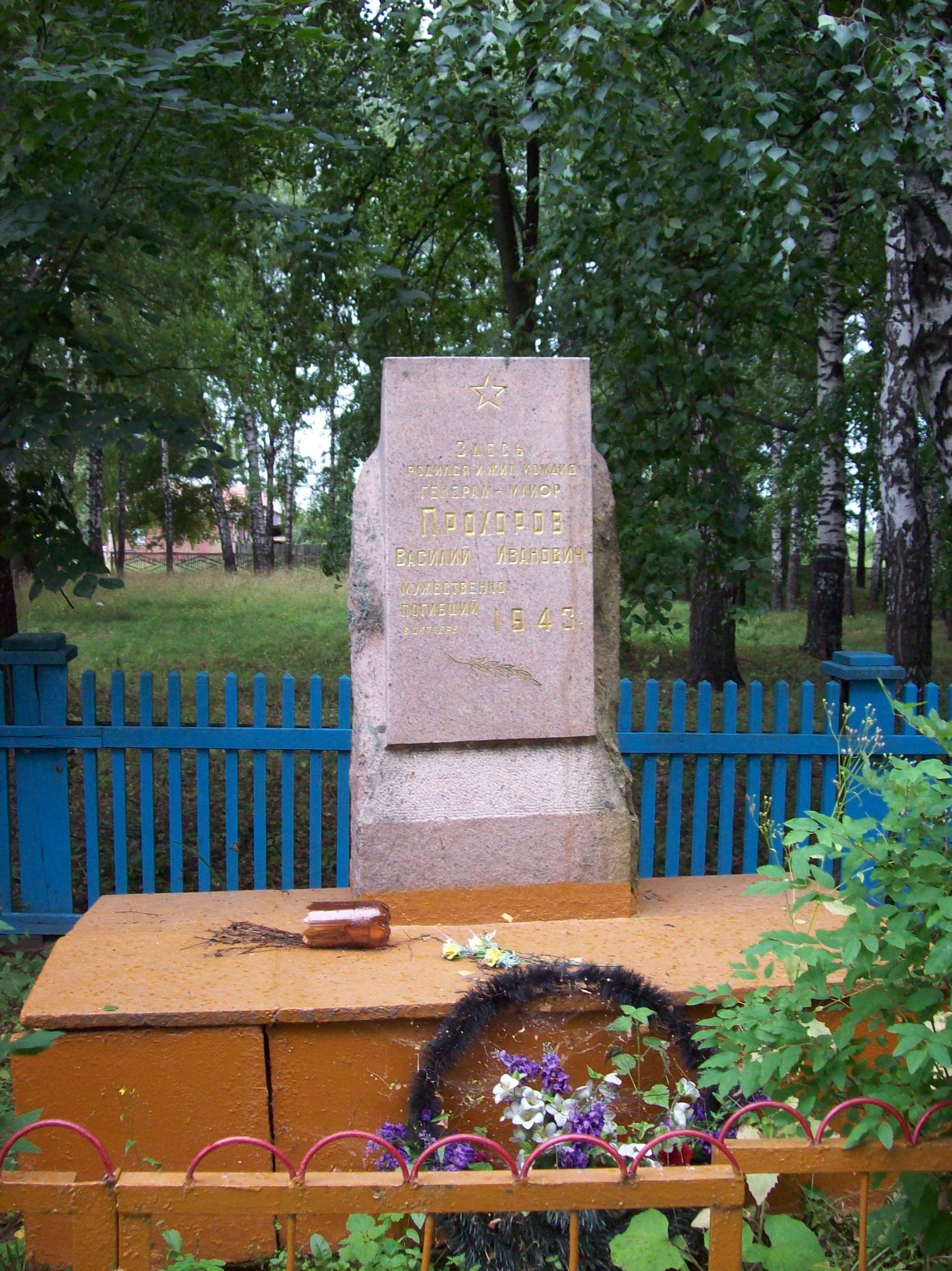 Monument to Major General Prokhorov in Vasilsursk